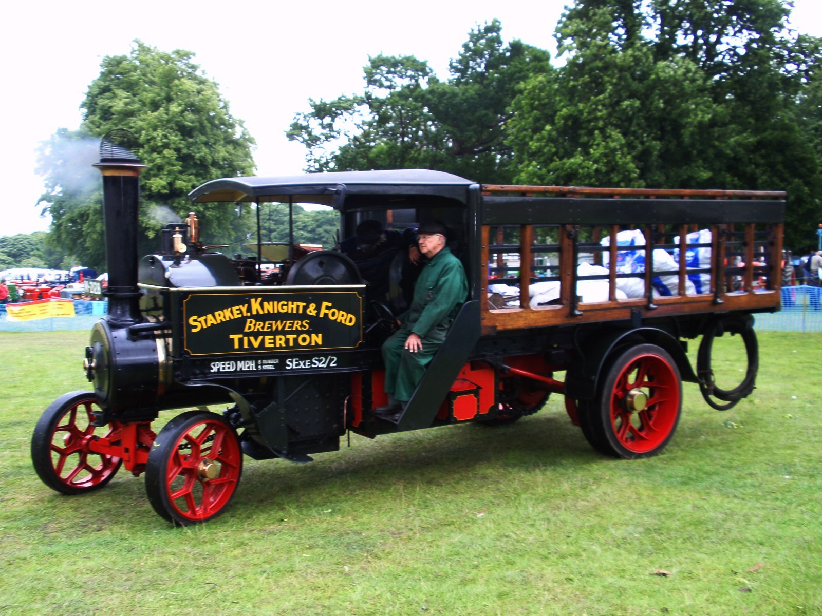 Steam lorry, Astle Park, June 2009